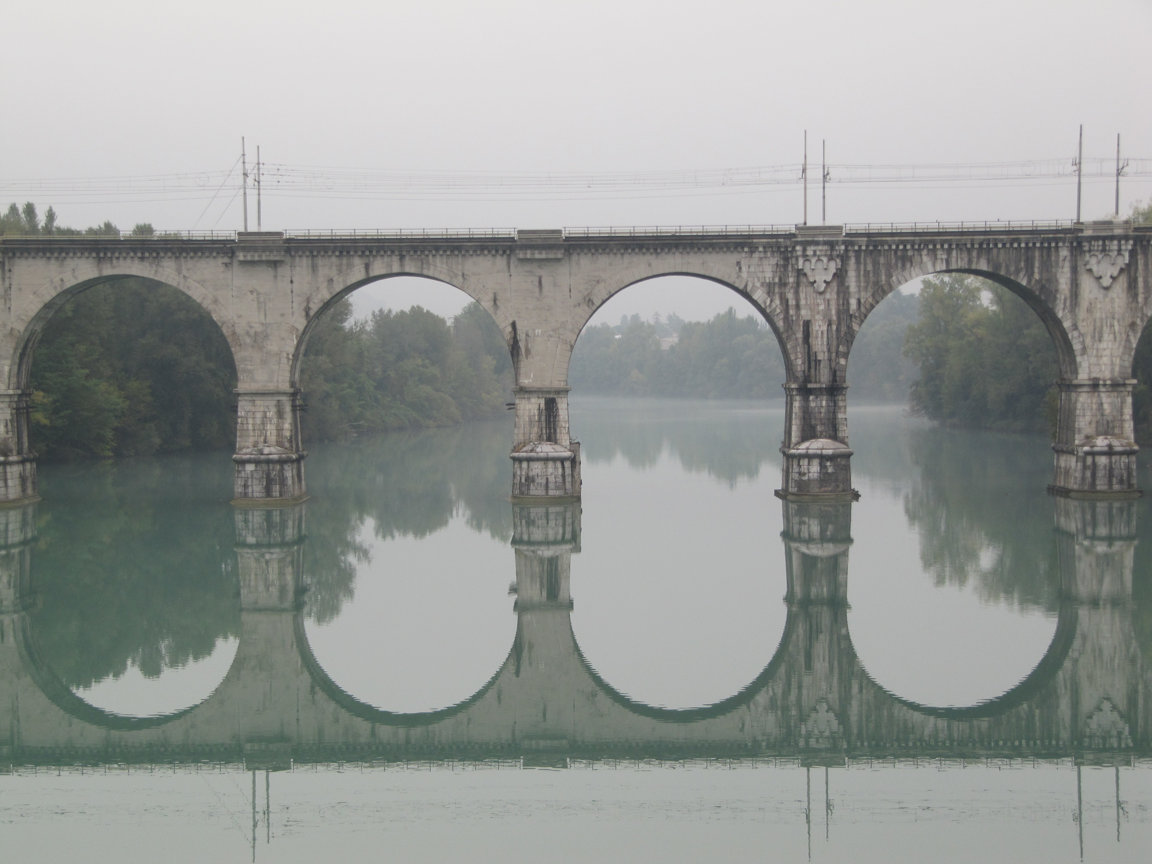 A railroad bridge across the Isonzo river in Gorizia